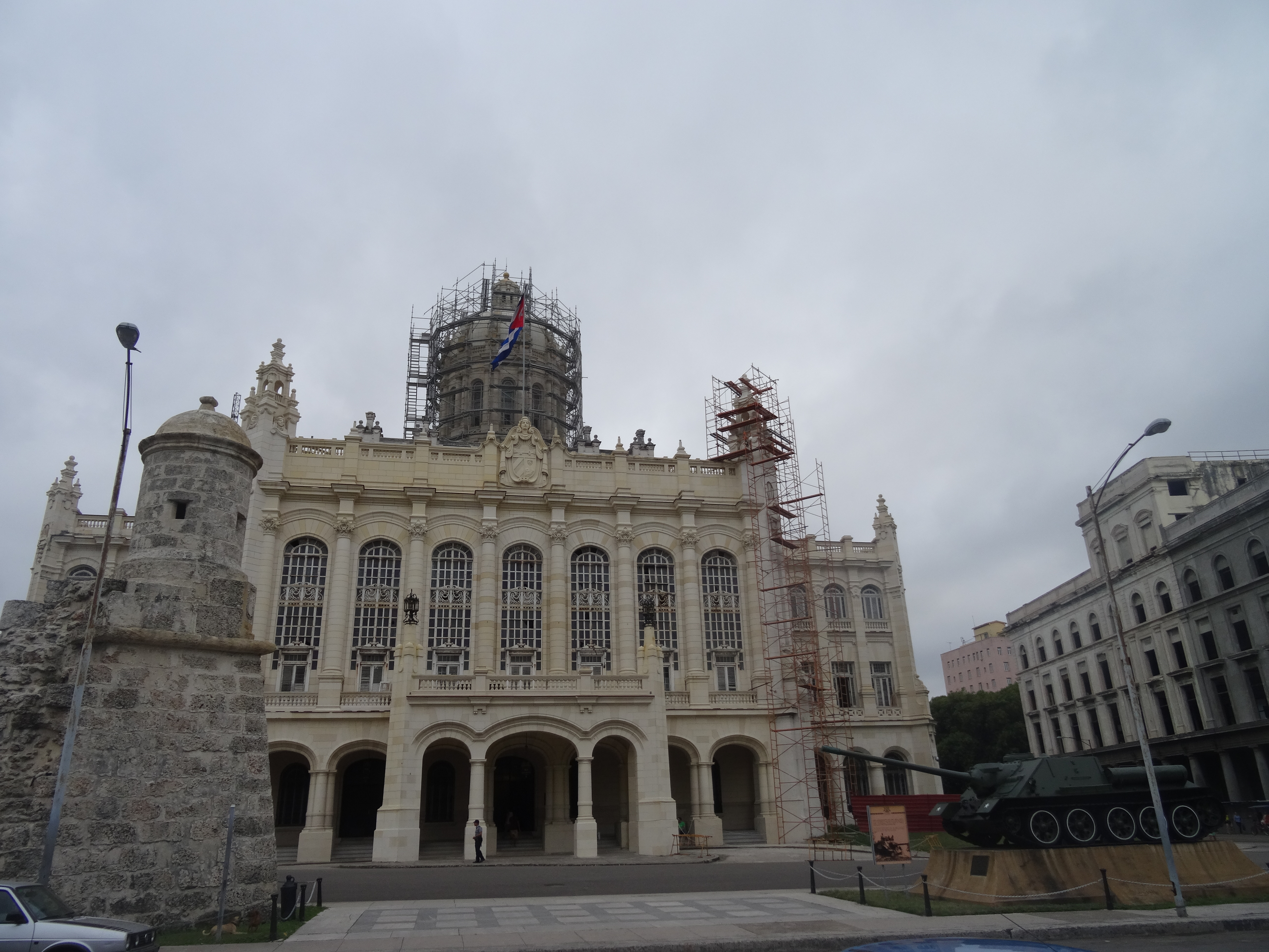 Museum of the Revolution.